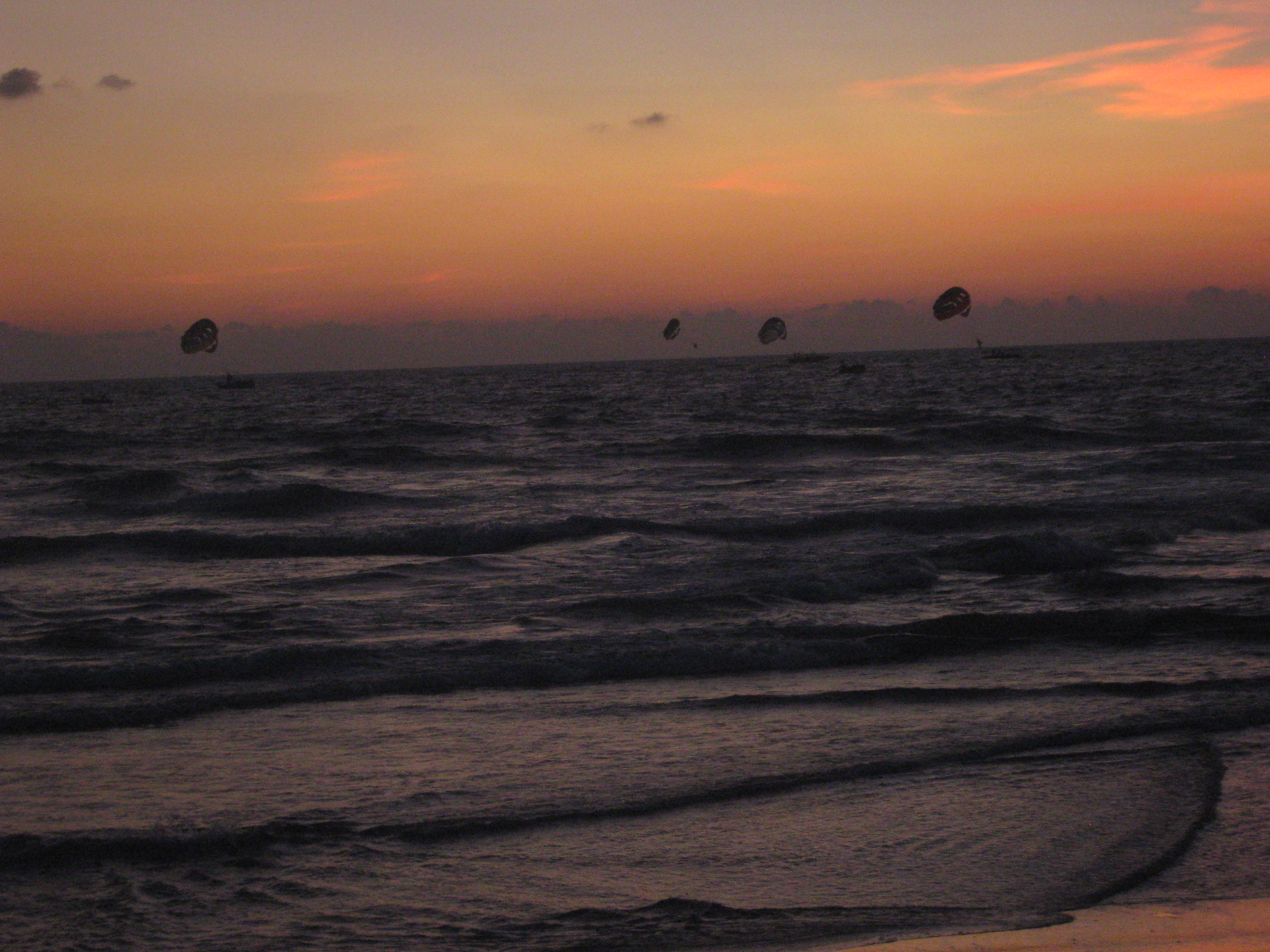 Parasailing at Baga Beach, Goa during sunset.